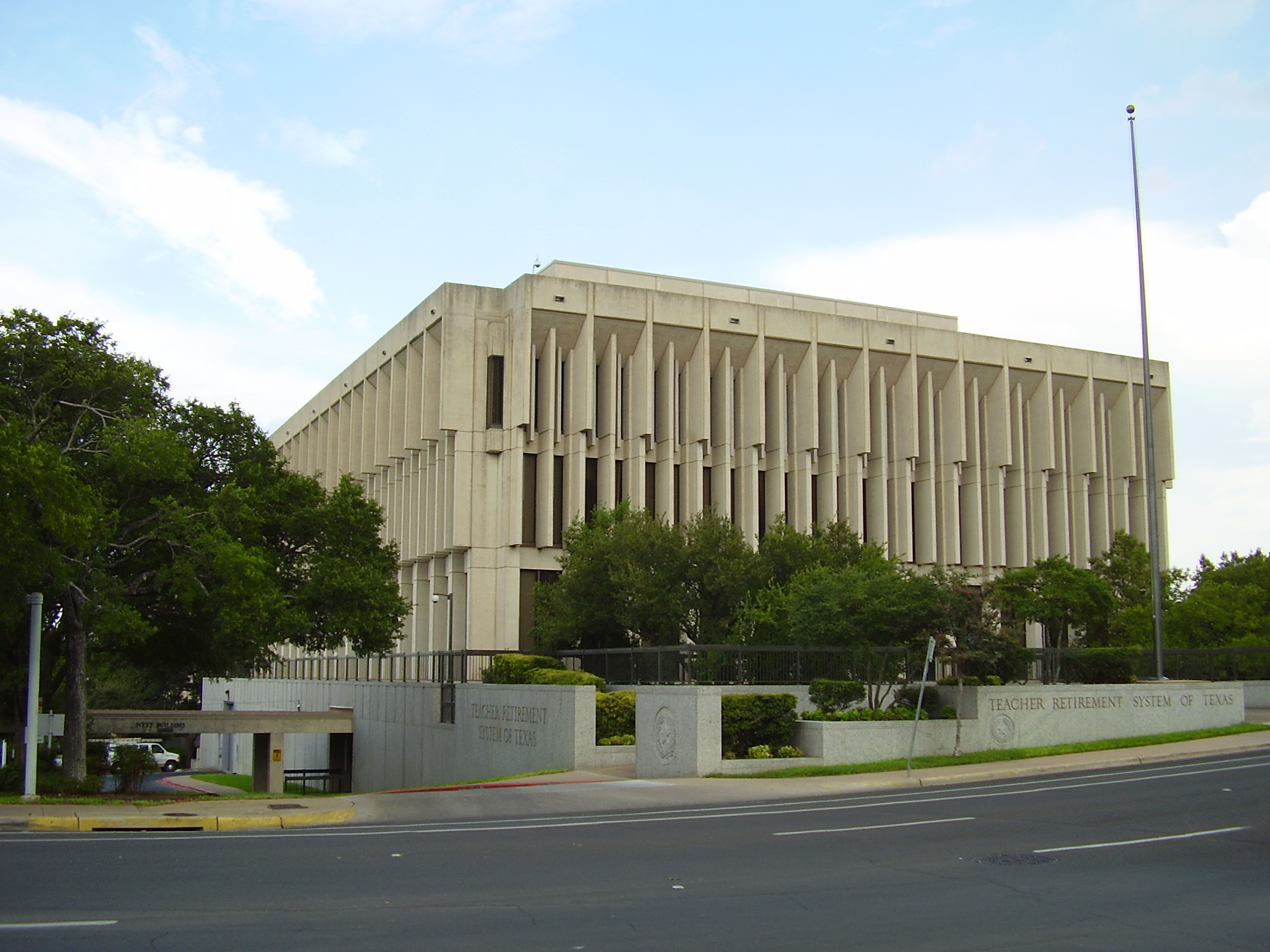 Teacher Retirement System of Texas - Austin Sistema de Jubilación de los Maestros en Texas - Austin